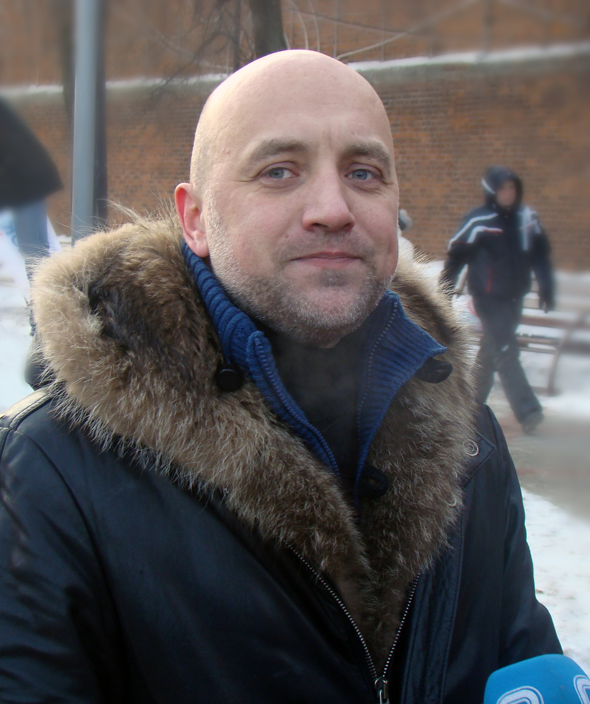 Zakhar Prilepin at Nizhny Novgorod rally, 4 February 2012